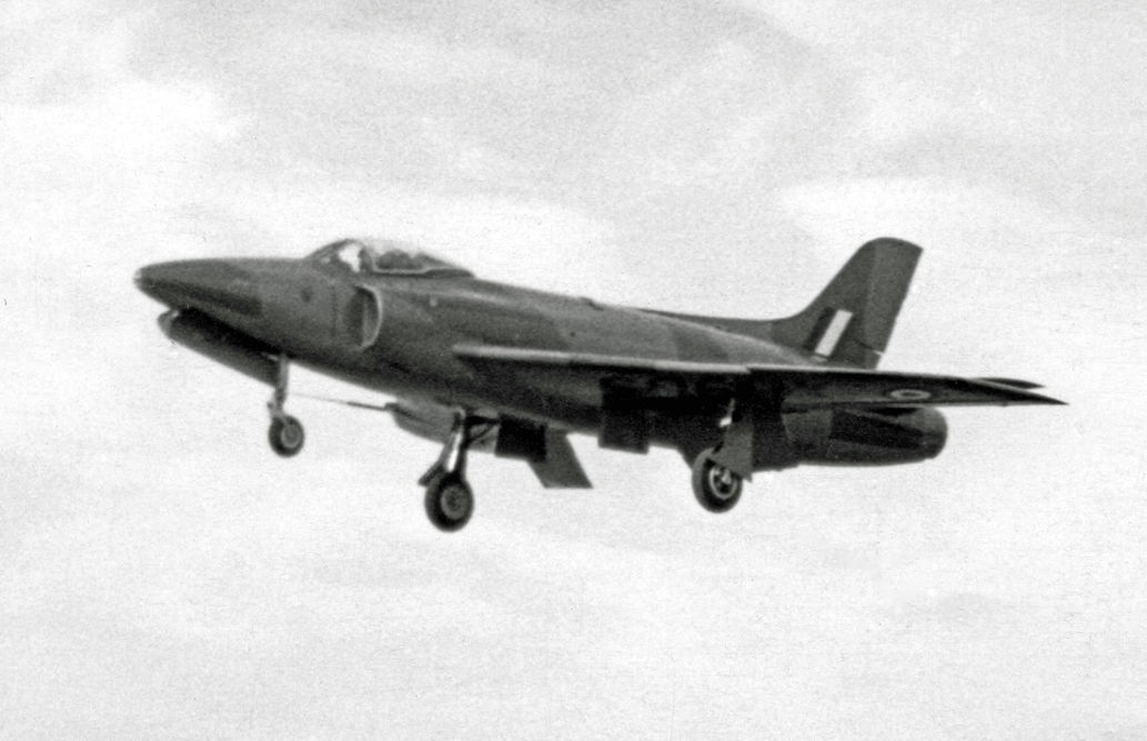 Supermarine Swift FR.5 XD905 landing at the Farnborough Air Show